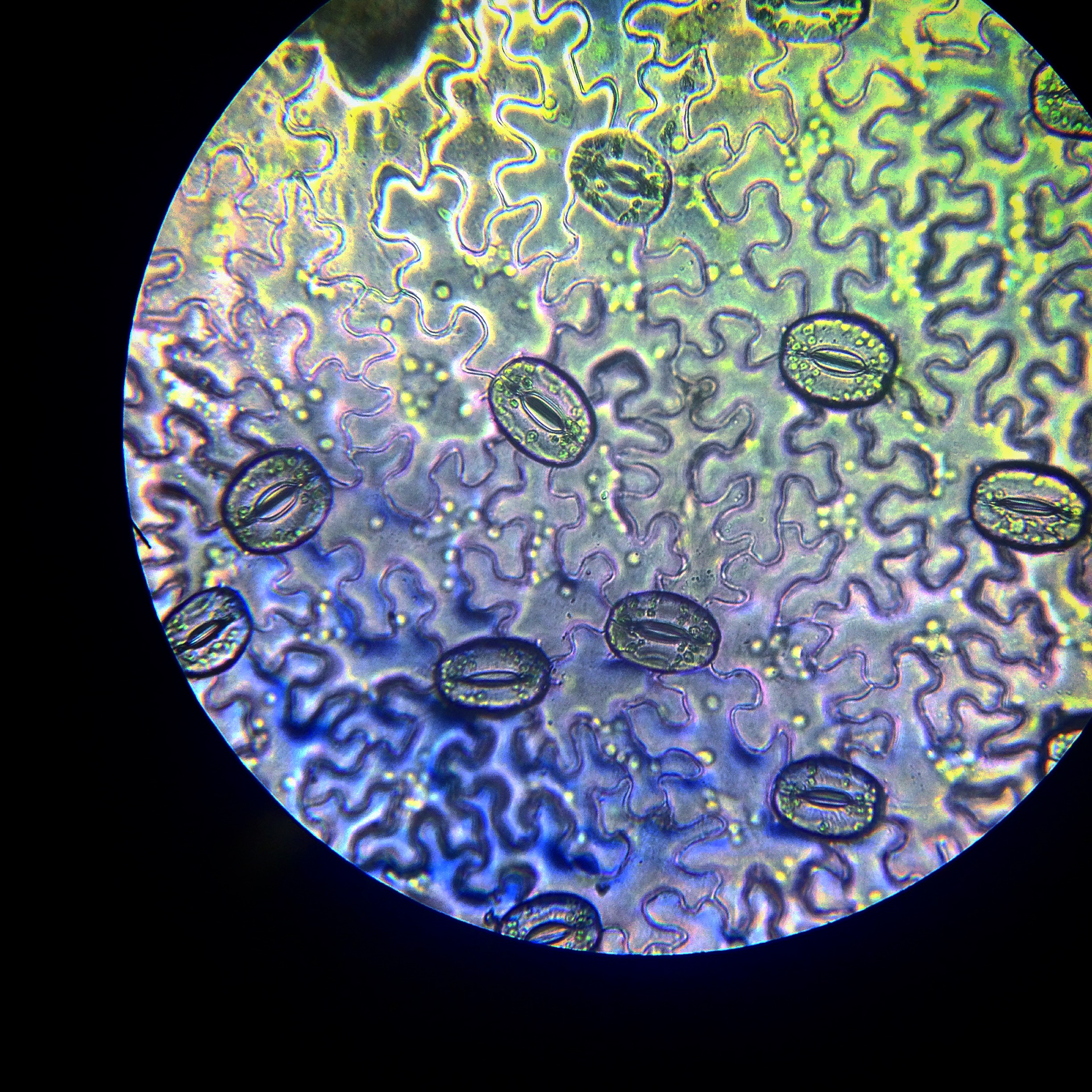 This is a photo of cuticle of a leaf. As clearly seeing in the photo there are many stoma with chloroplasts and presents the stomatal complex in the form of anomocytico.